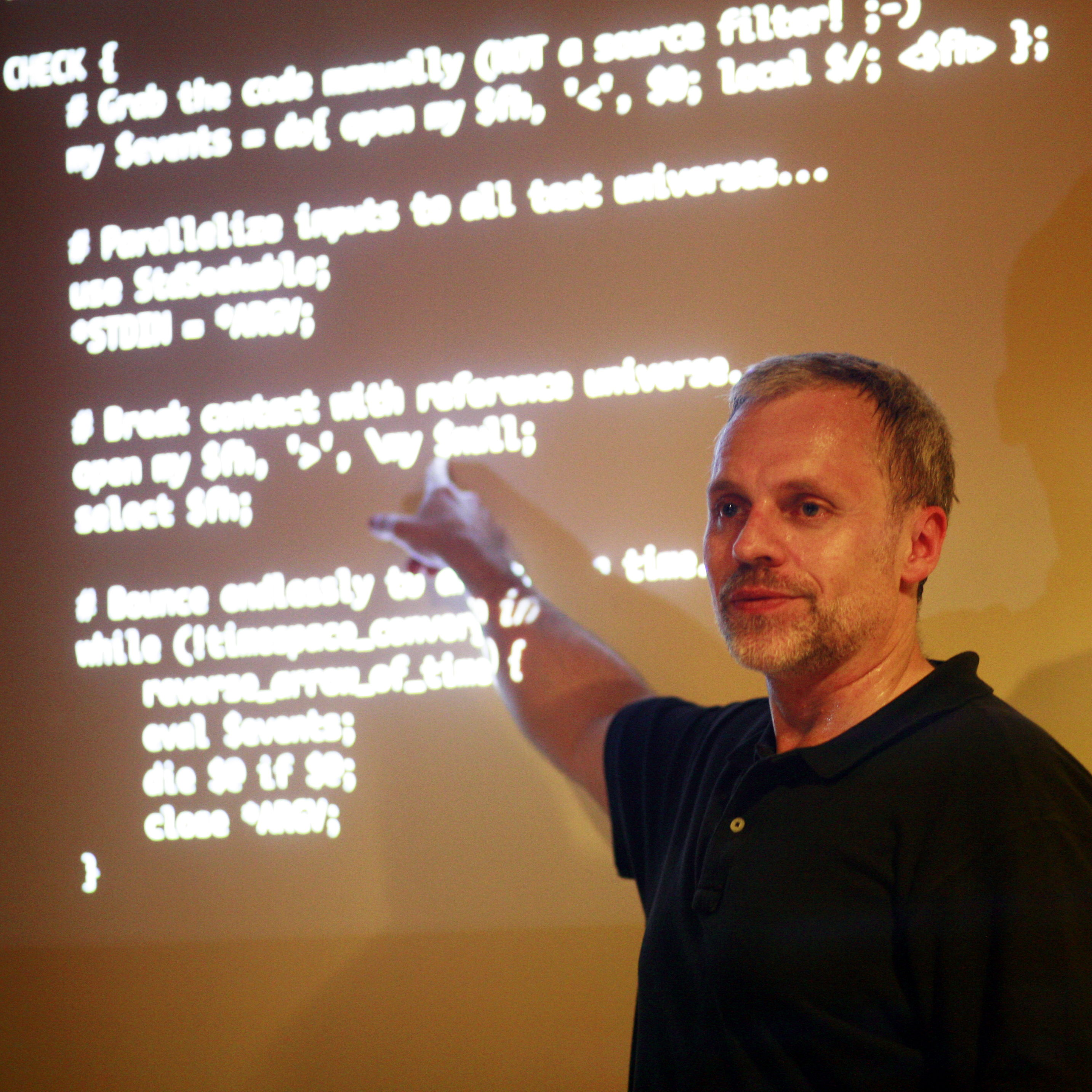 Damian Conway giving a talk in Lausanne.